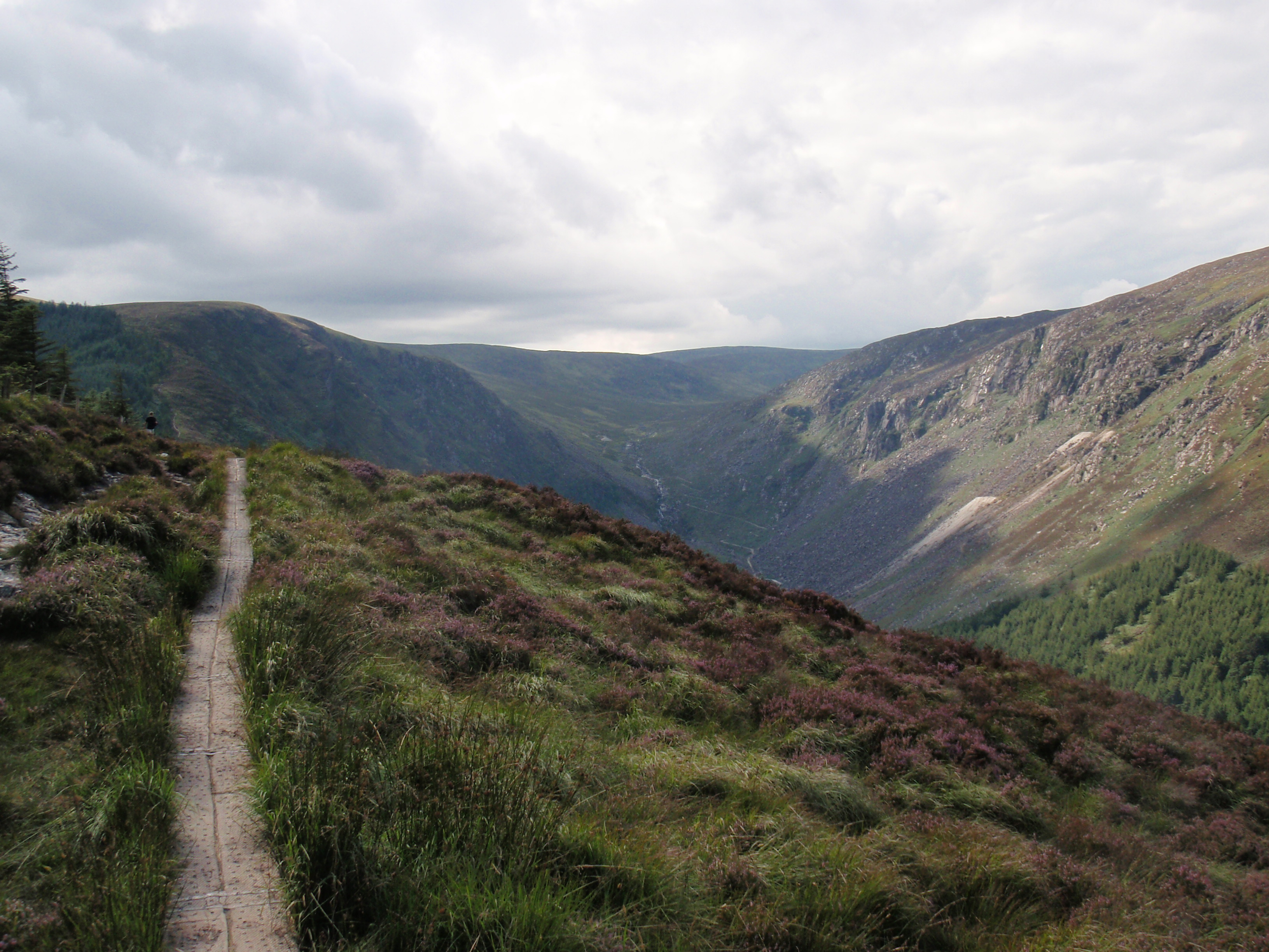 Ireland